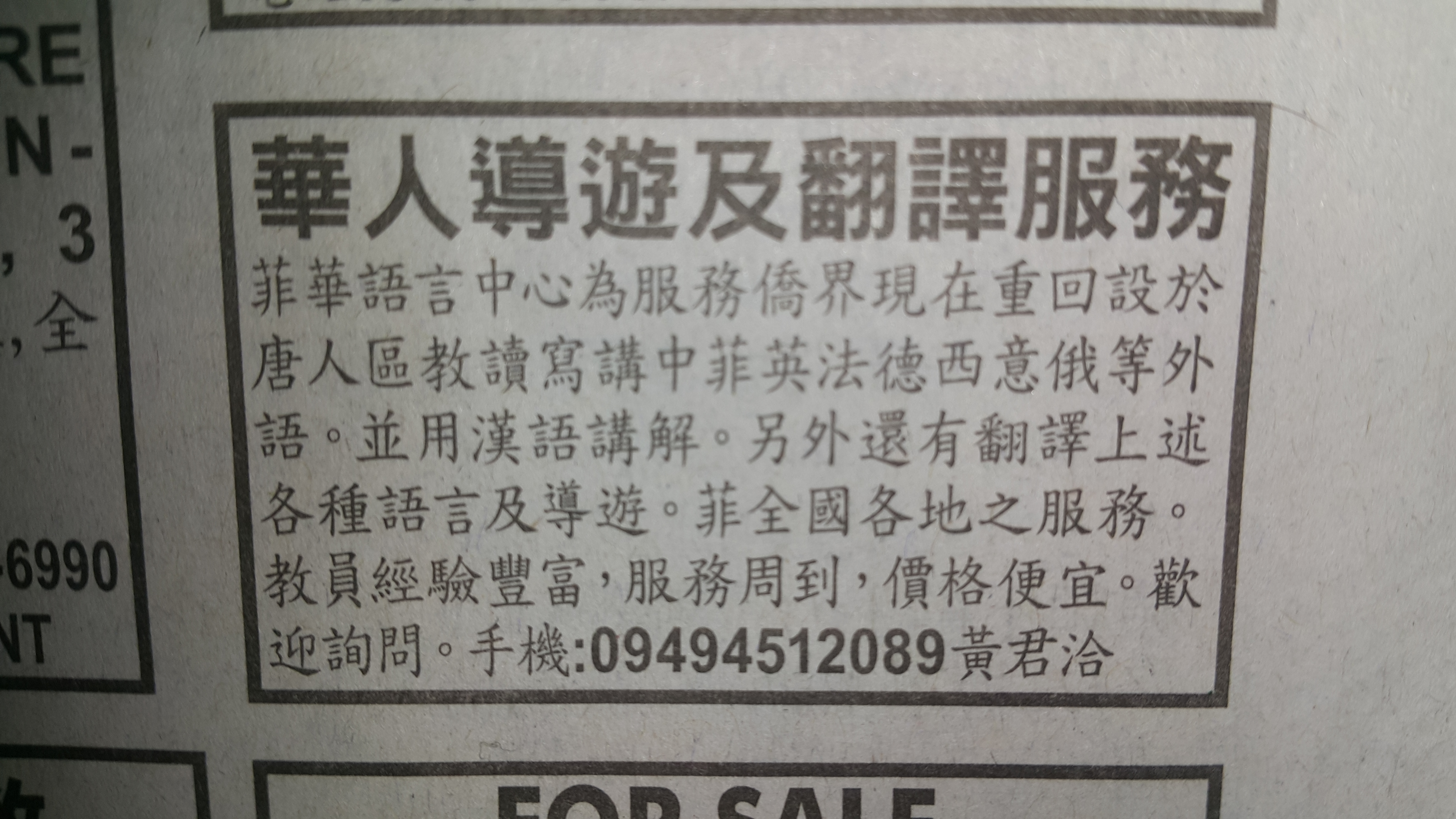 Job announcement in a Filipino Chinese daily newspaper written in Traditional Chinese characers.